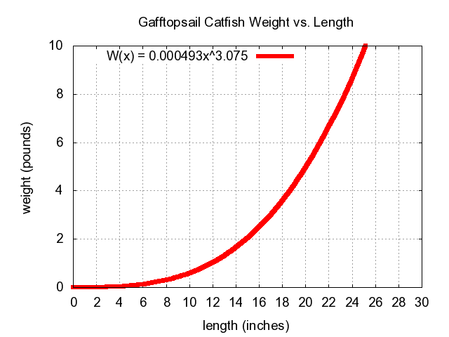 Weight-length relationship for gafftopsail catfish (Bagre marinus), based on data from the Florida Fish and Wildlife Commision, 2008